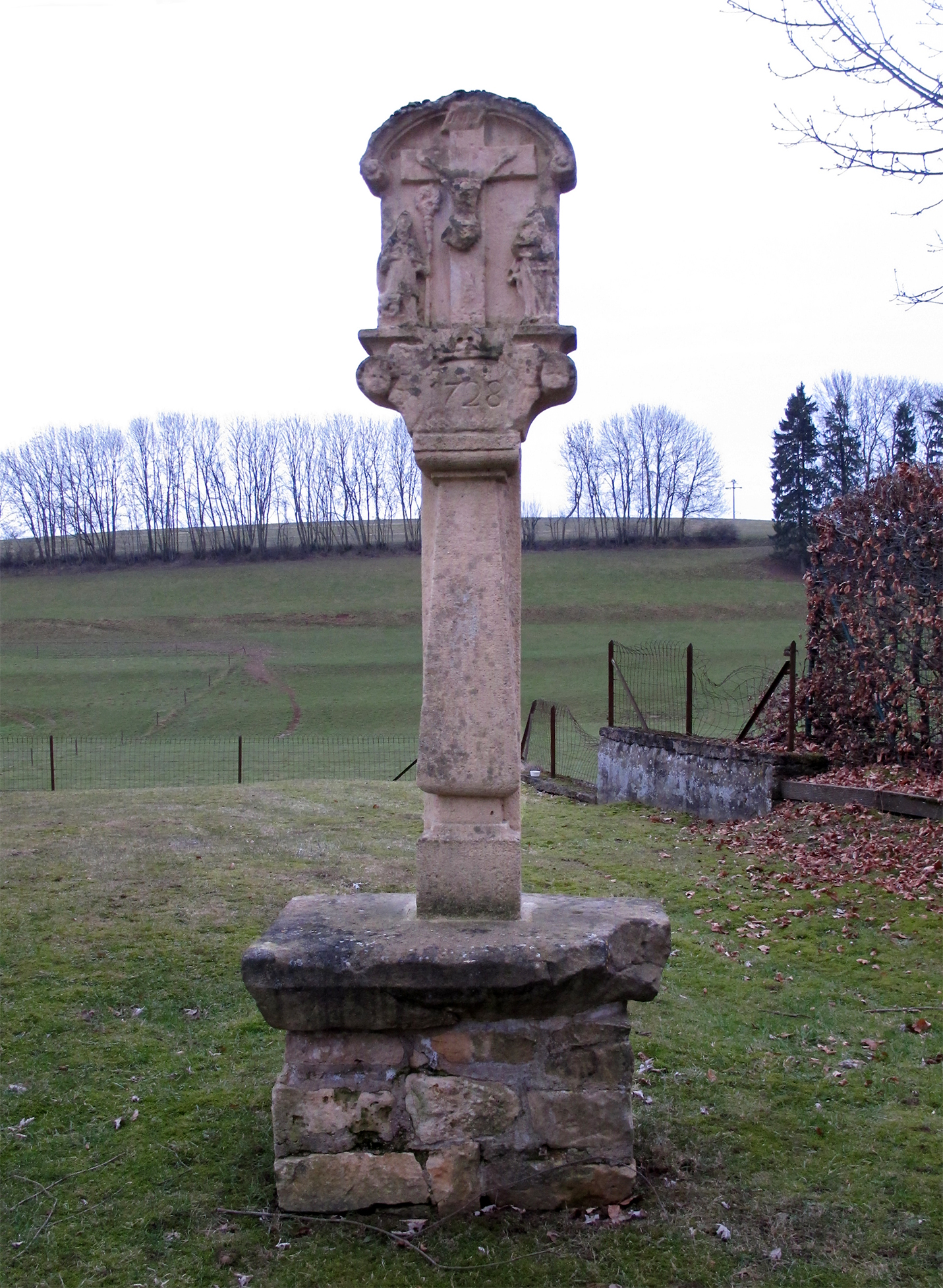 Wayside chapel in Hivange, Luxembourg, beside the chapel